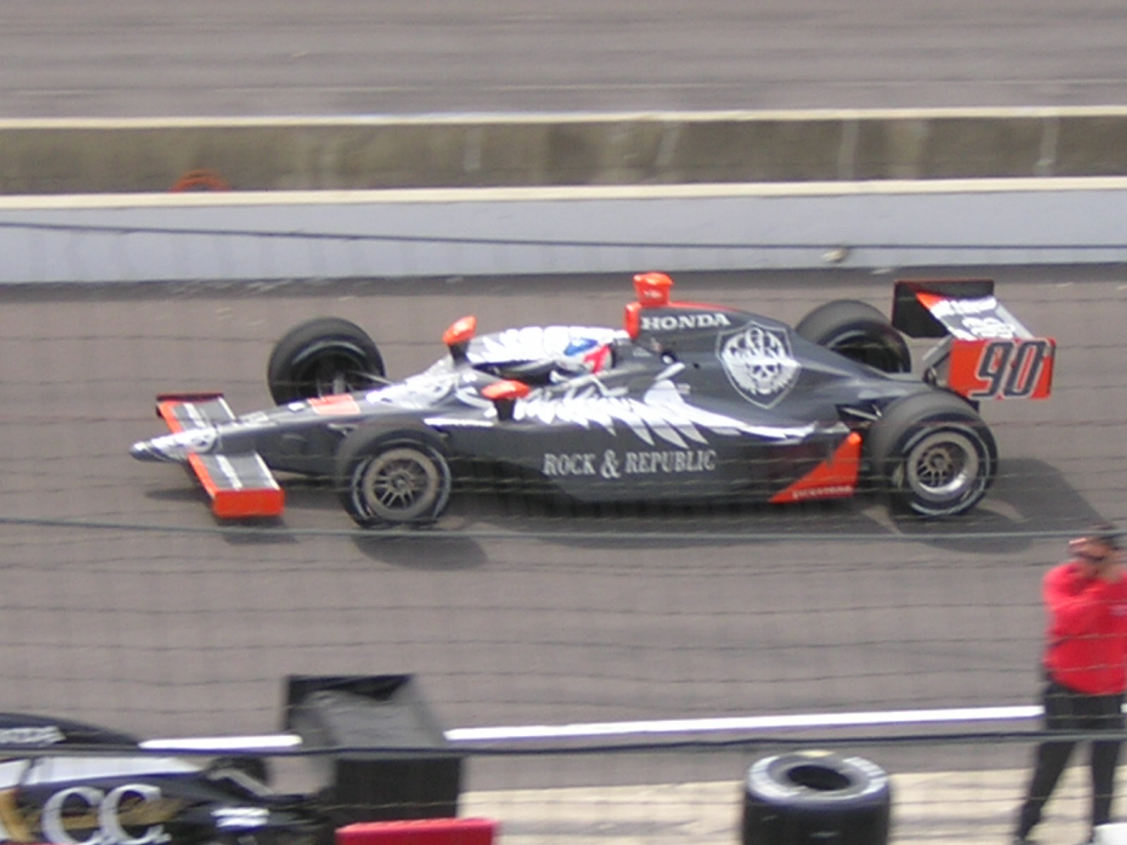 Townsend Bell's Vision Racing car practicing for the 2006 Indianapolis 500